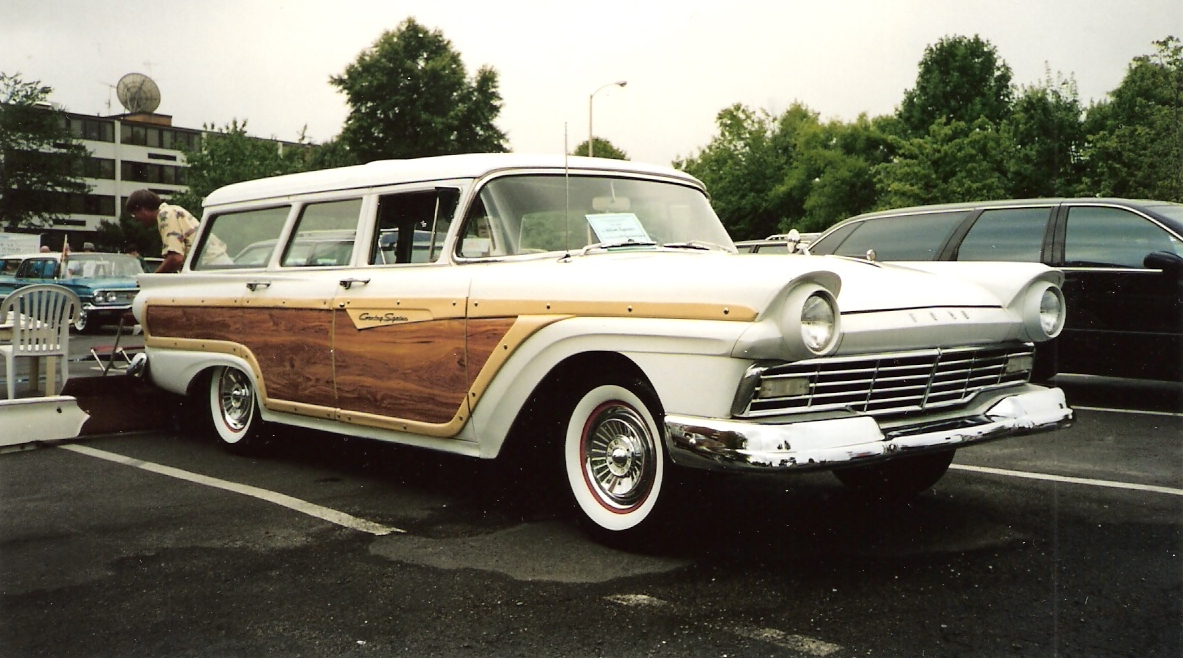 1957 Ford Country Squire station wagon I photographed in Charlotte, North Carolina in June 1999.